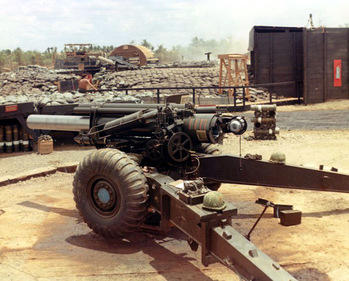 Side view of a 155mm howitzer in a fortified firing position at Fire Support Base "Thu Thua", manned by Btry C, 5th BN, 42nd Arty, 11 Field Force.